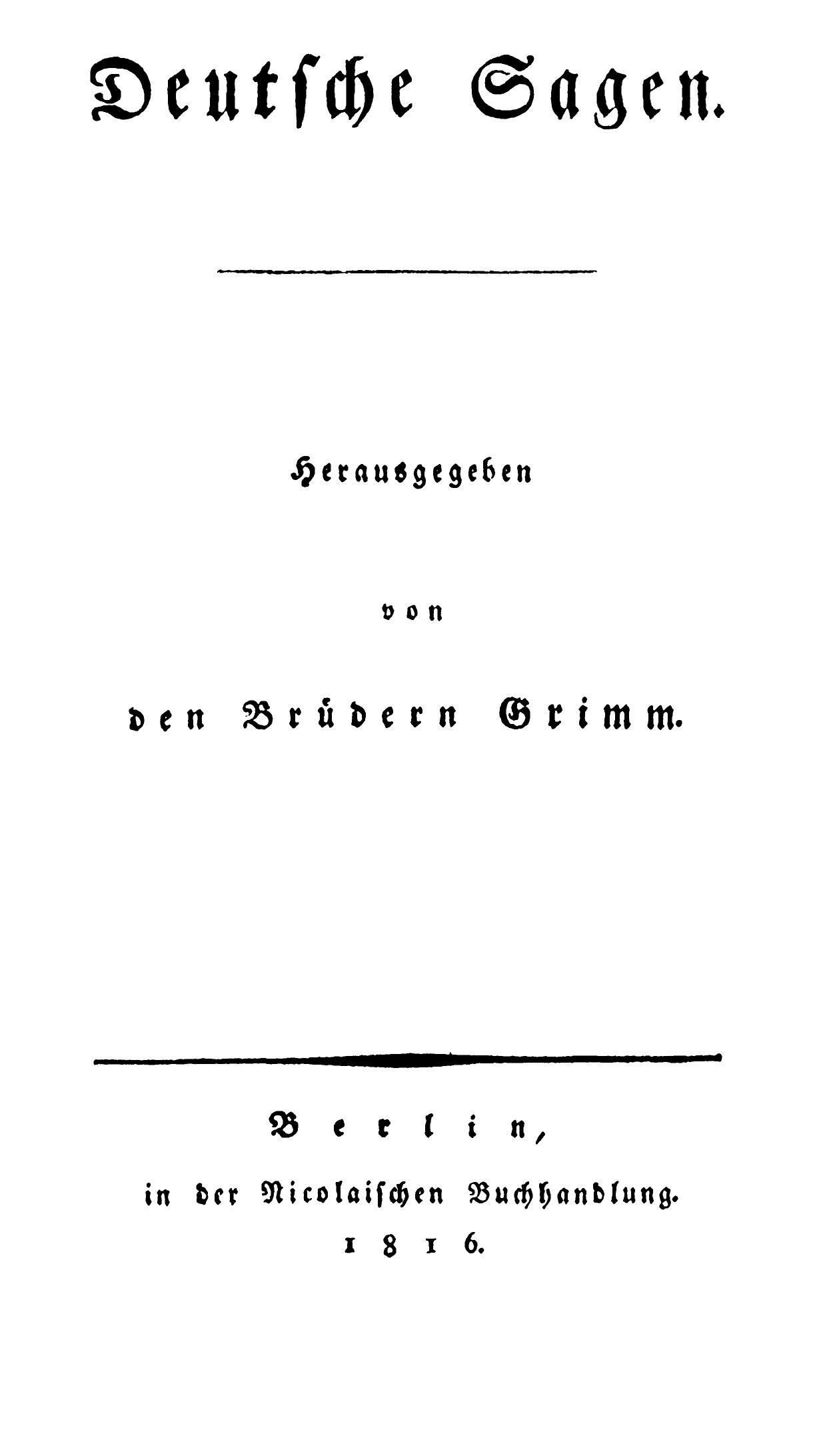 This is a scan of the historical document